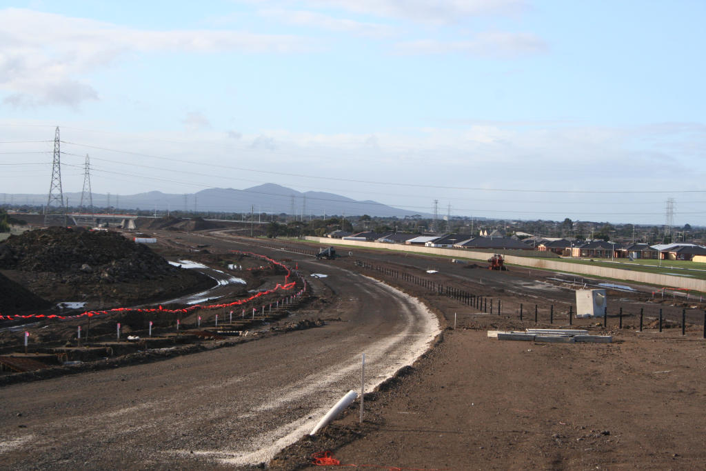 Geelong Bypass under construction at Bell Post Hill